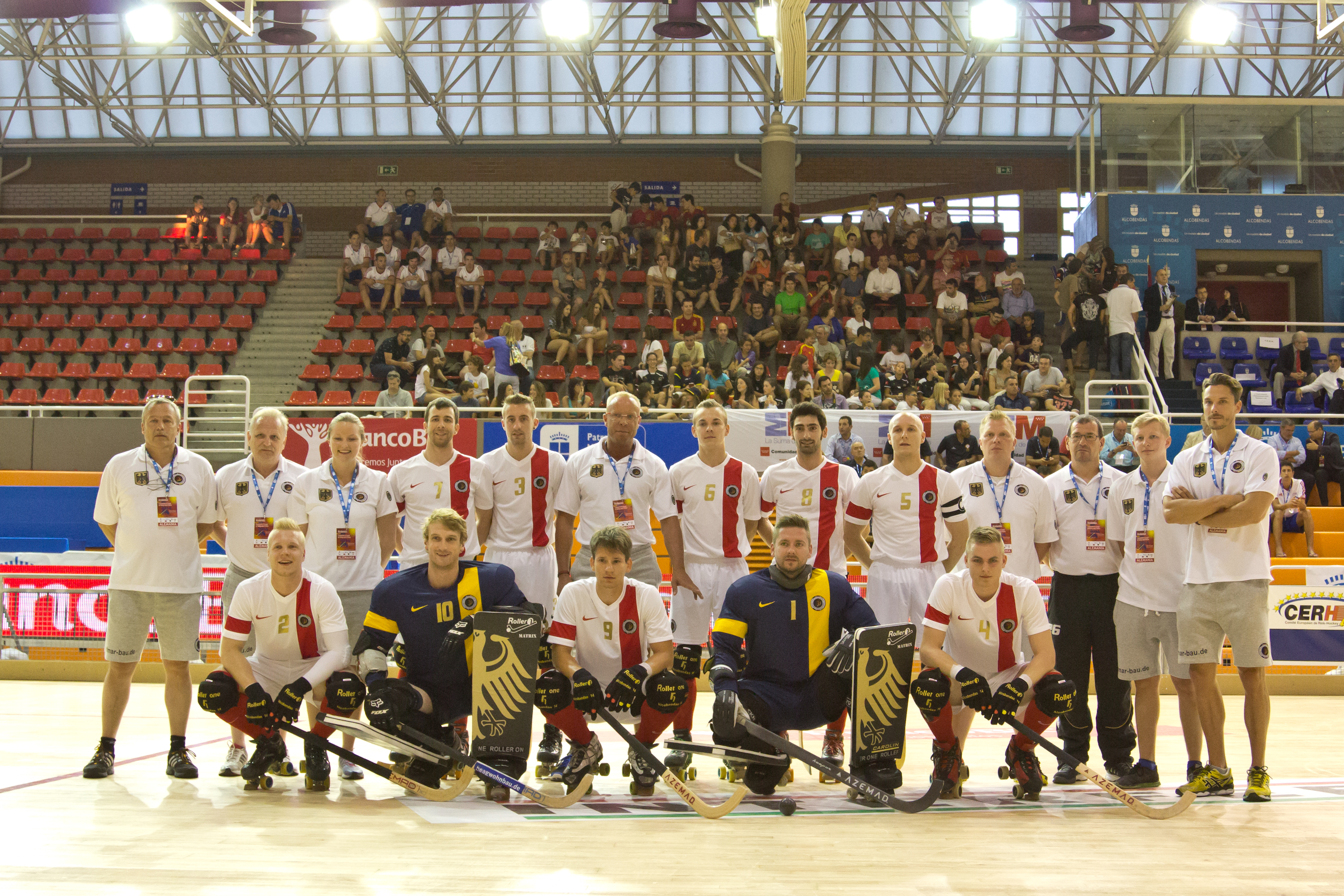 Germany national roller hockey team in 2014 CERH Championship.